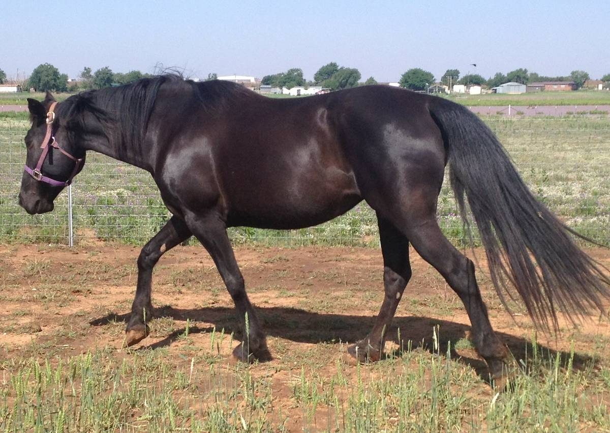 Missouri Fox Trotter